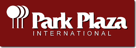 Park Plaza International is a hotel chain founded in the United States in 1986